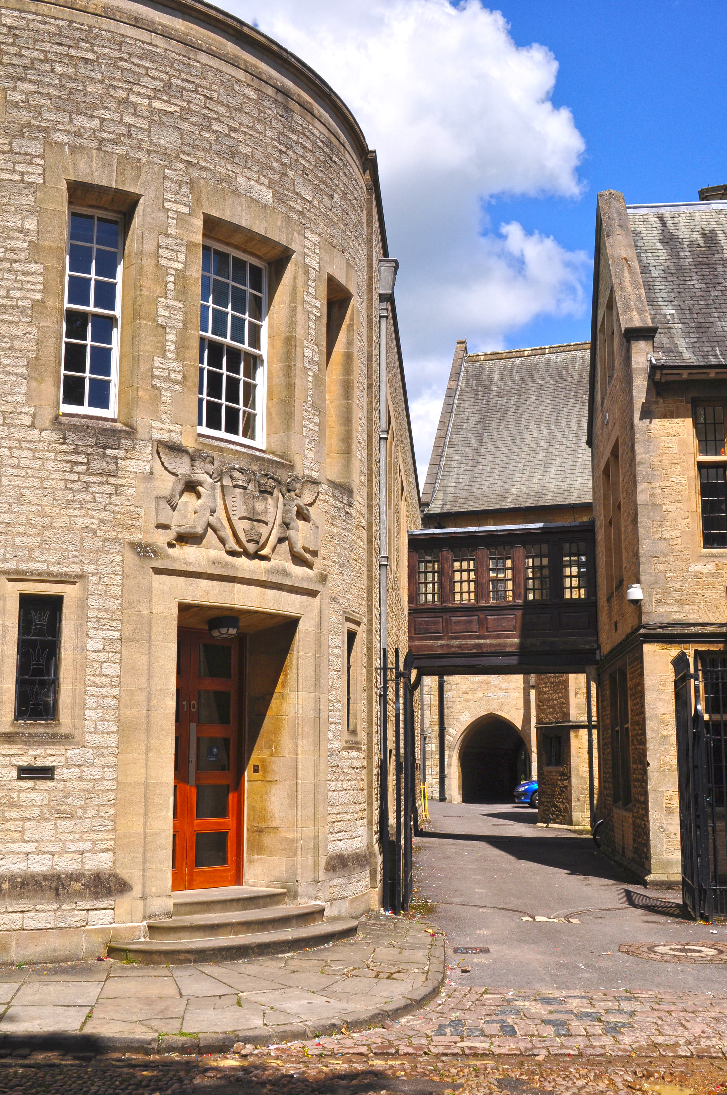 Oxford: buildings on Merton Street, Oxford, including the rounded History Faculty Library. 10 Merton Street (left) doubled as the Wessex Bank in the Endeavour episode "Coda".10 Merton Street housed the philosophy faculty from the summer of 1976 until the summer of 2012 when it moved to the Radcliffe Infirmary on Woodstock Road. For more information, see Daniel Isaacson, "Oxford philosophy in 10 Mertin Street, and before and after", , September 2012.